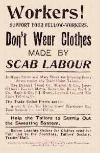 Available online, and taken prior to 1922. (National Museum of Ireland)